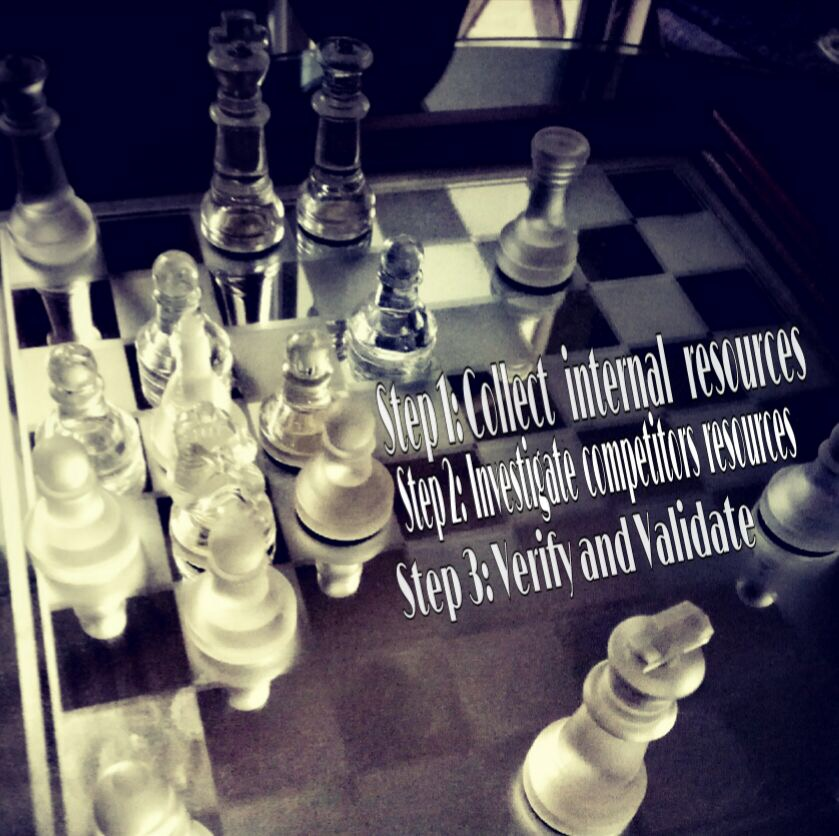 Consolidation of steps